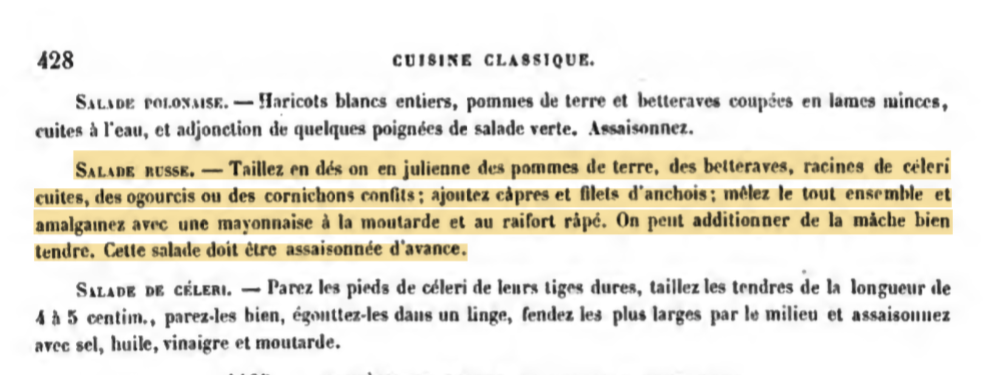 Recipe of "Russian salad" published in "Cuisine classique" by Urbain Dubois and Émile Bernard, France, 1856. In terms of Russian cuisine, this salad may correspond to vinegret rather than Olivier salad.